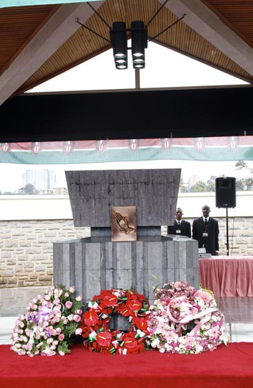 This is where the first president of Kenya Mzee Jomo kenyatta was buried within the Kenyan parliaments grounds.